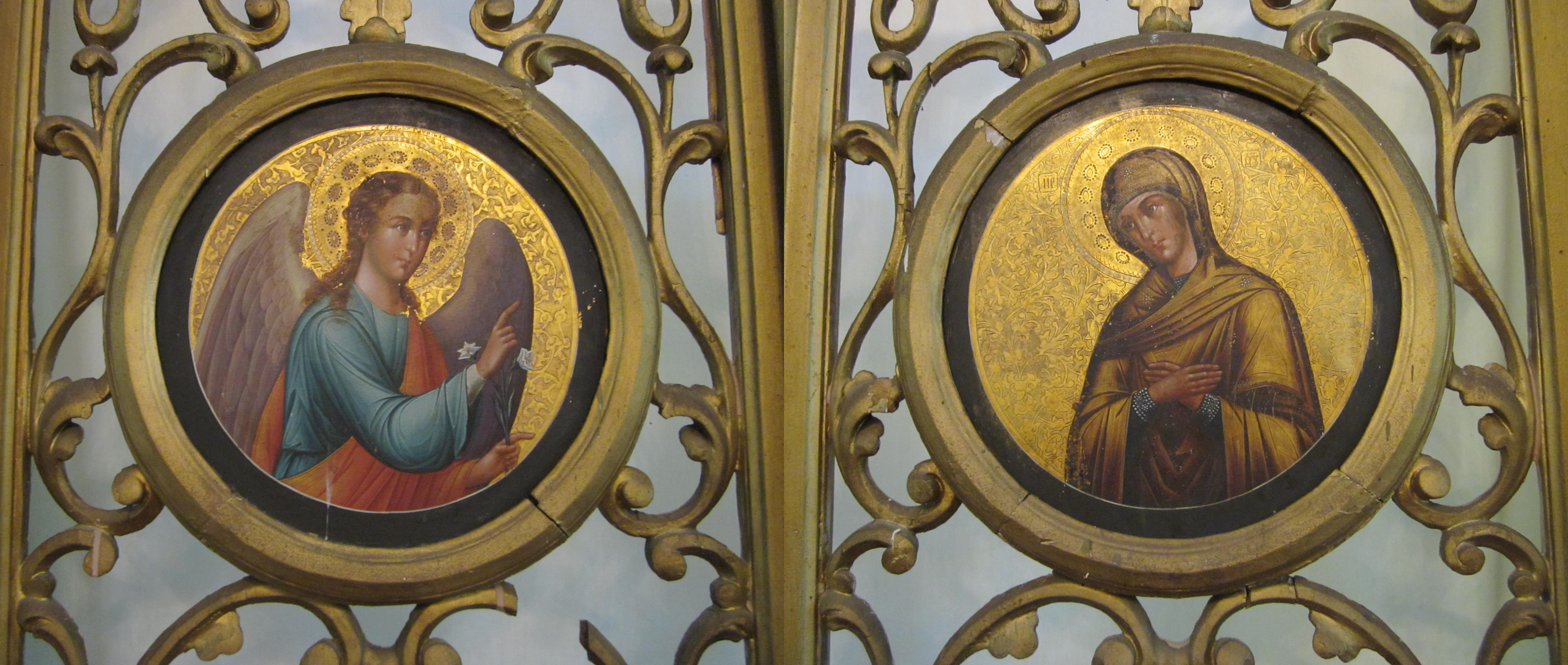 Orthodox icon Annunciation on Royal Doors in Nõo Trinity church, Estonia